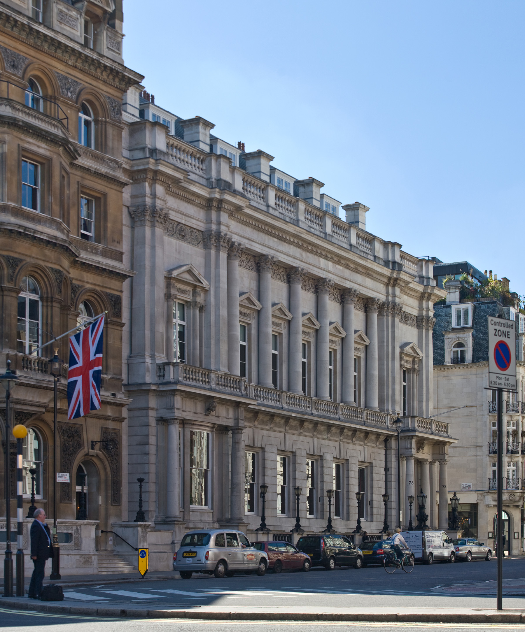 HSBC Private Bank building on St James's Street, London, England.